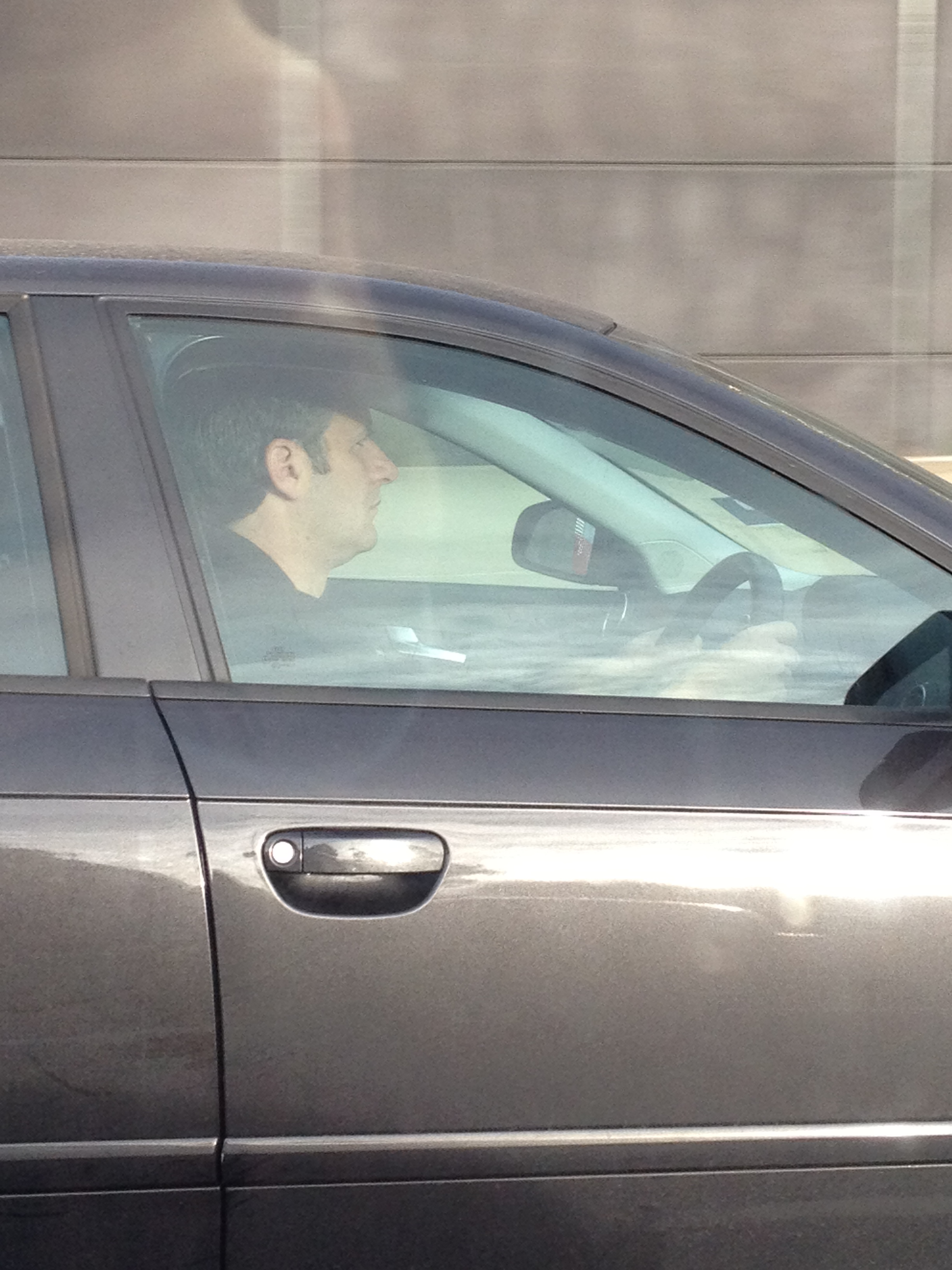 Adam Hills driving in Melbourne, July 2012.